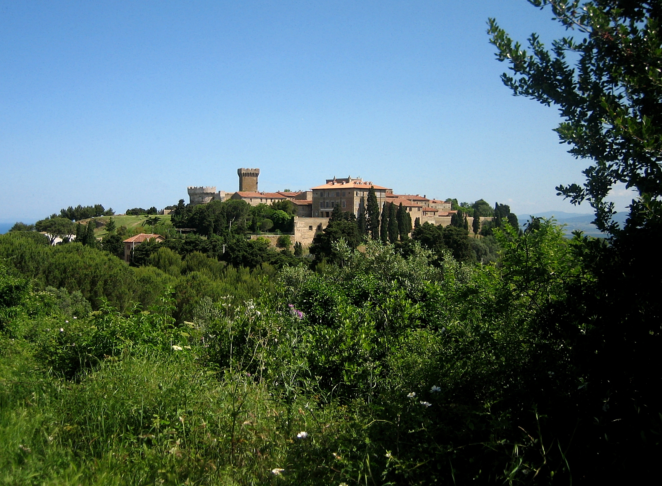 Populonia, near Piombiono in Tuscany in Italy